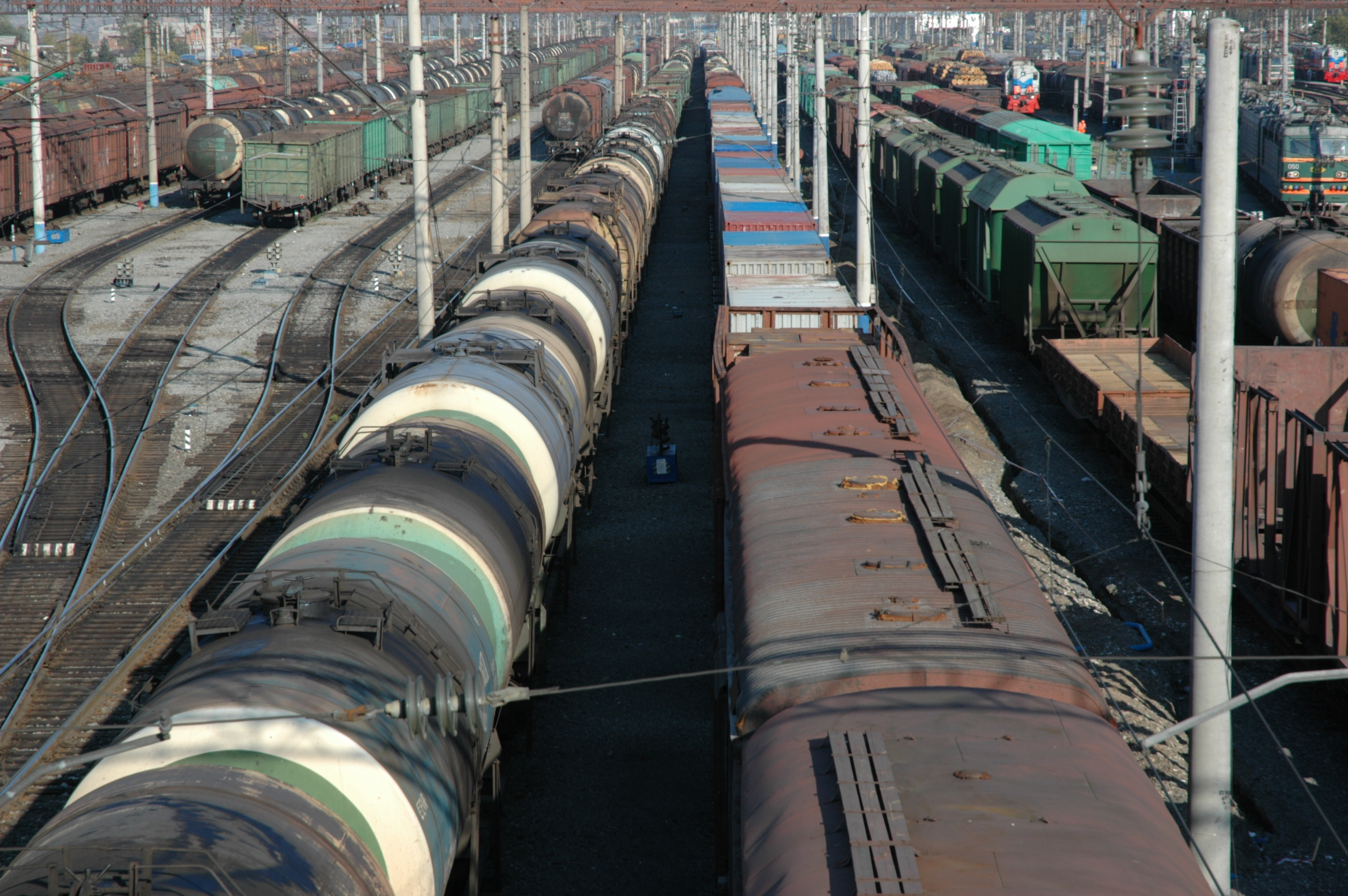 Rail transport in Ulan-Ude, Russia.